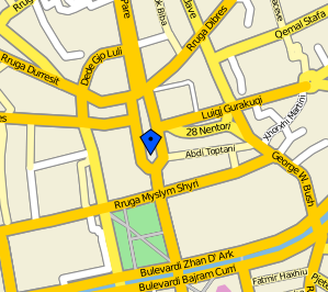 Street map of Skanderbeg monument and Skanderbeg square This map may be incomplete, and may contain errors. Don't rely solely on it for navigation.